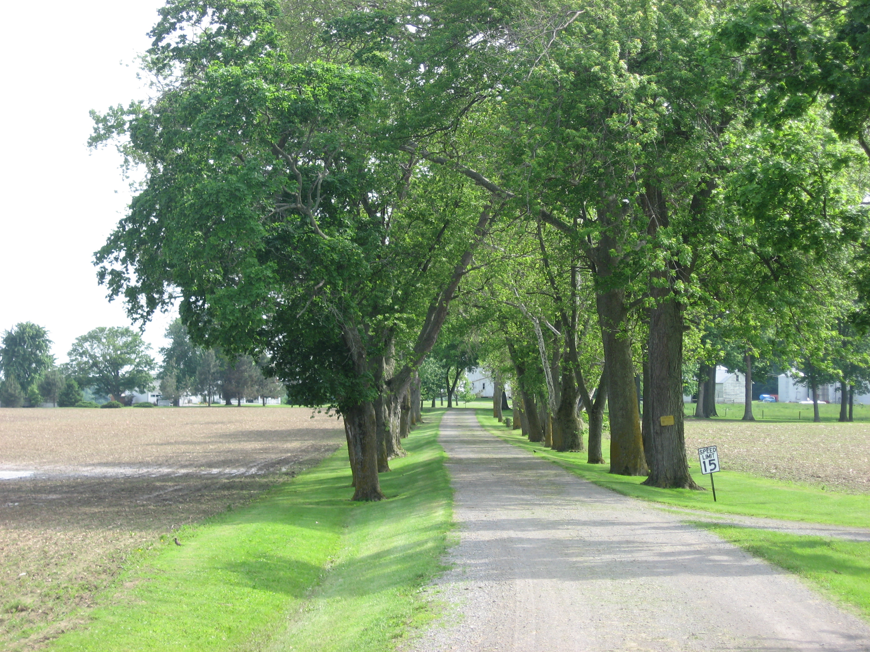 Driveway to Bretz Farm, located at 197 Morral-Kirkpatrick Road east of Morral in Grand Prairie Township, Marion County, Ohio, United States. The farm complex is listed on the National Register of Historic Places.